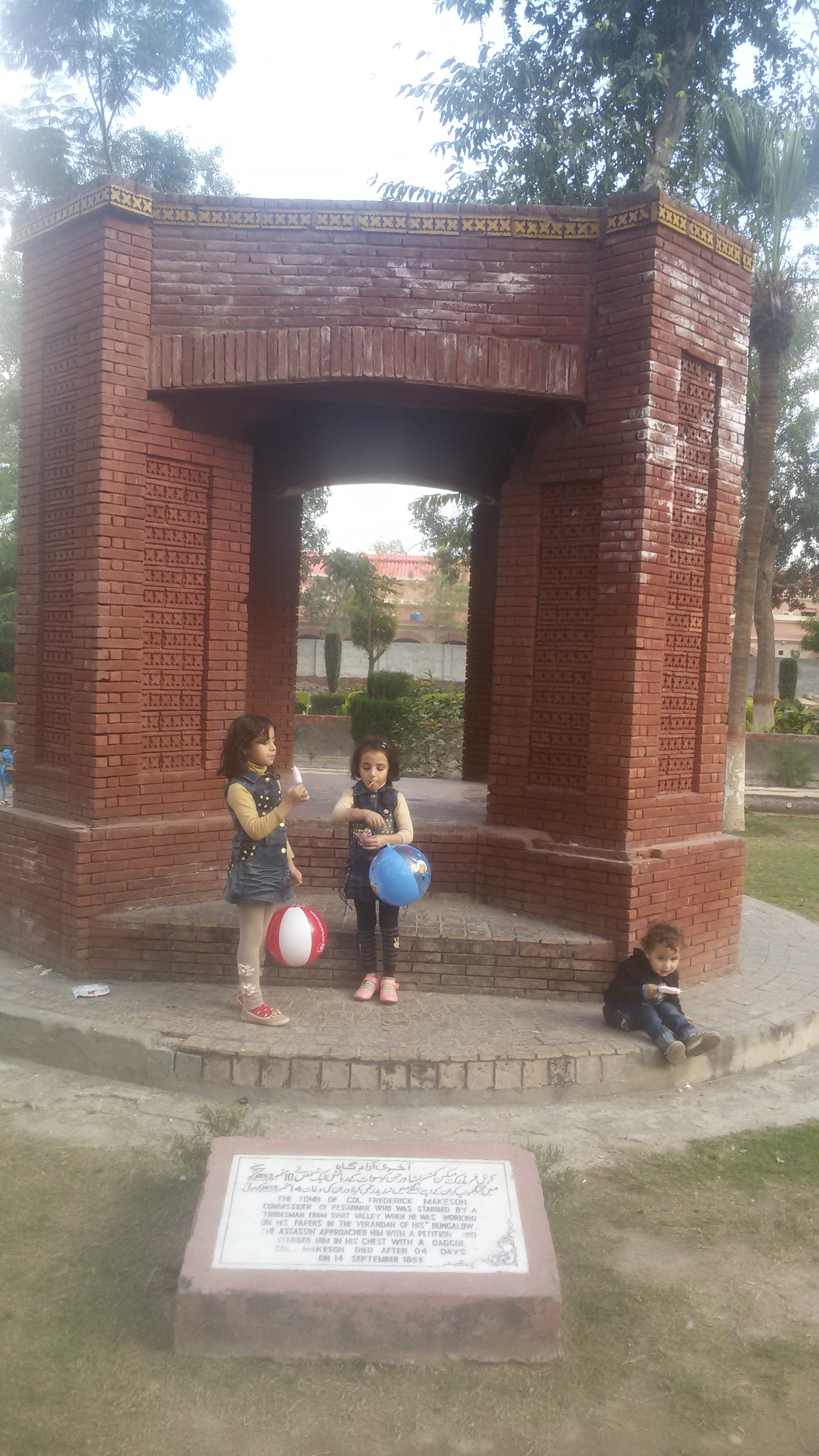 I took this picture on a short visit to Khalid Bin Waleed Garden in Peshawar.